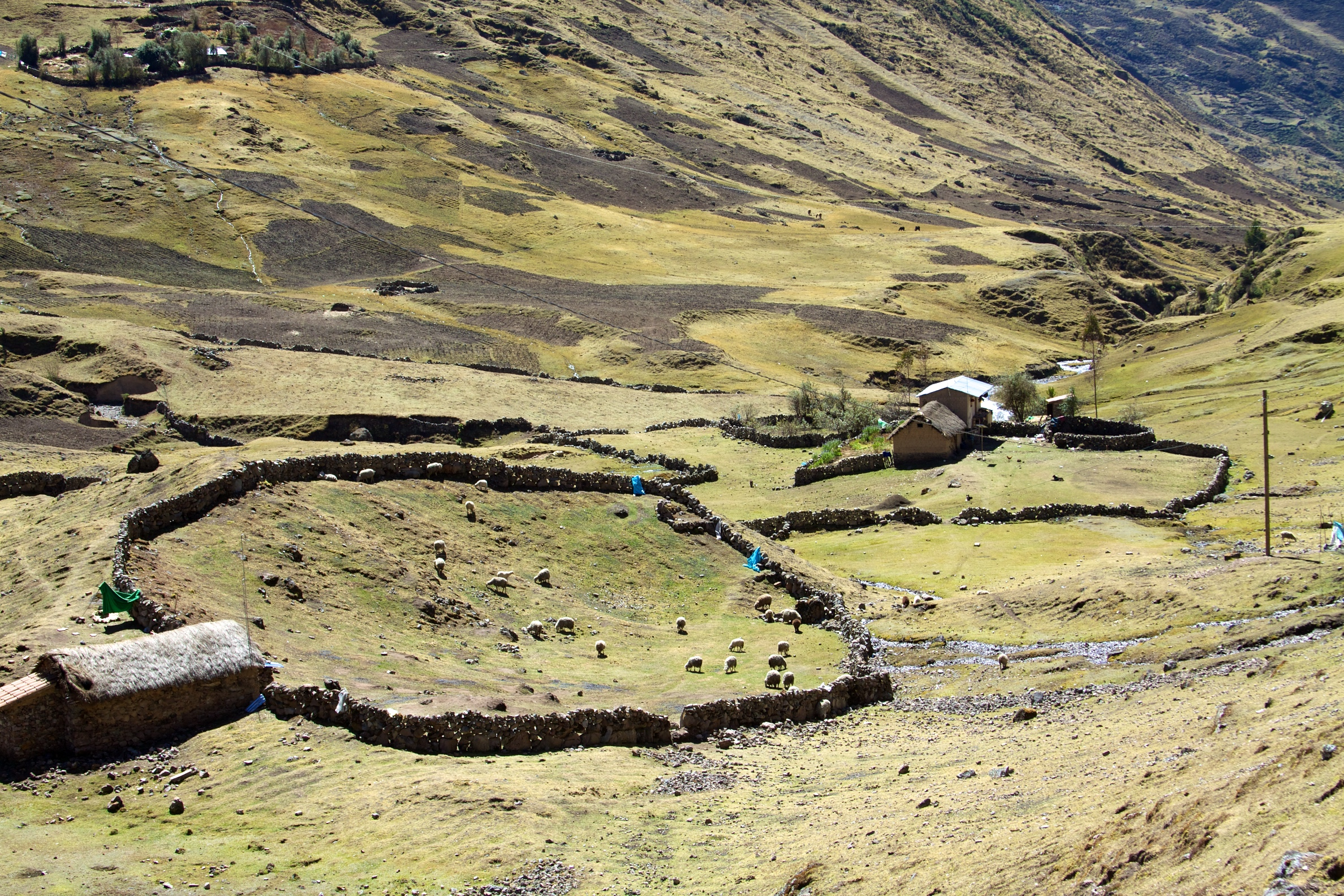 Sheep, llamas and alpaca are the animals of choice up here with stone corrals spider-webbing through the valley to keep them reasonably contained.